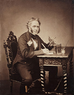 John Obadiah Westwood circa 1850